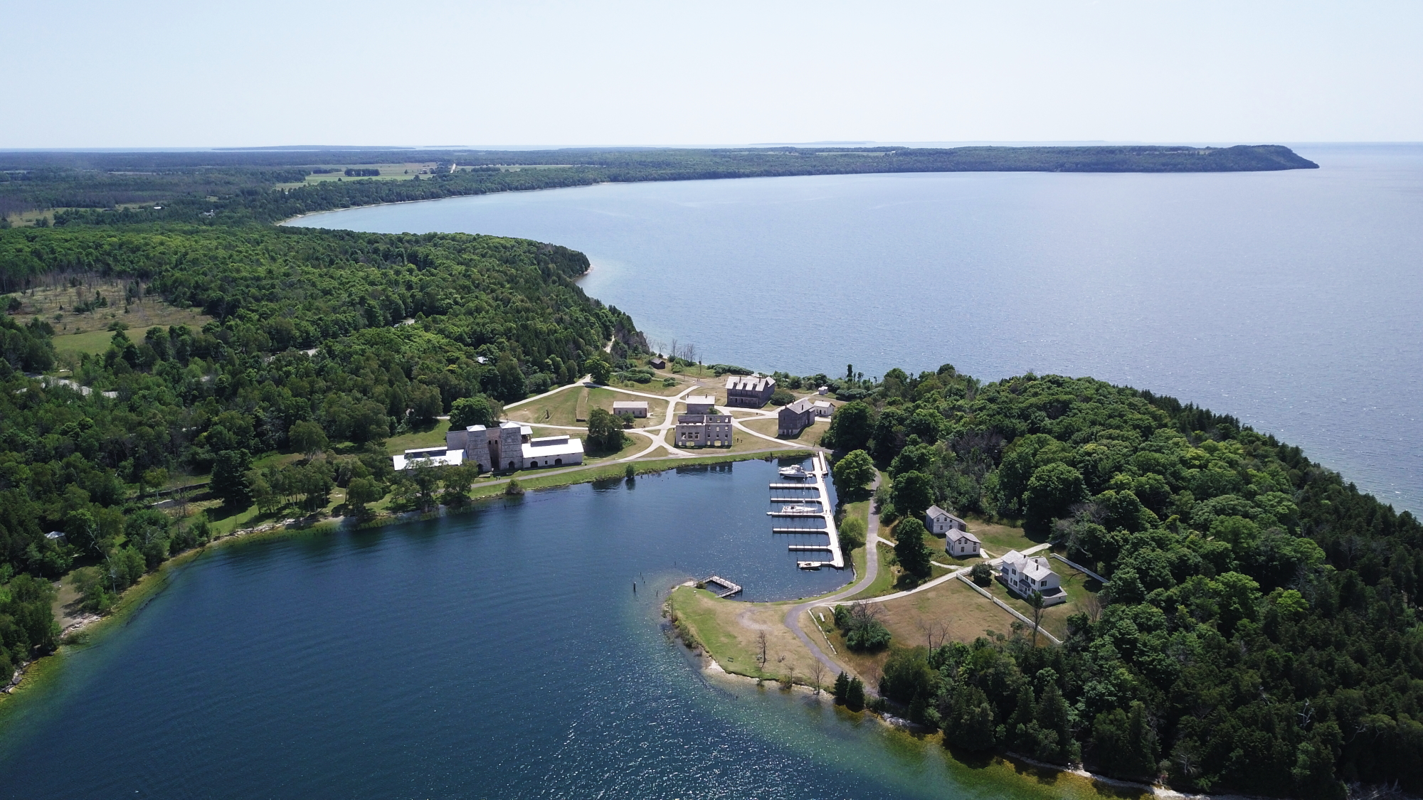 Fayette Historic Townsite, Fayette Historic State Park, Fairbanks Township, Michigan, July 22, 2019.